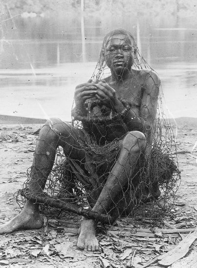 A catechist that a chief wanted to sell because "he taught doctrines that the ancients did not know about", Les Baloïs (Haut-Oubanghi area, 150 km north of Liranga towards Impfondo, Congo), 1905, photograph by Father Leray, second series of postcards published by Father Augouard (before 1912)[1]